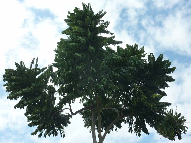 Dysoxylum gaudichaudianum